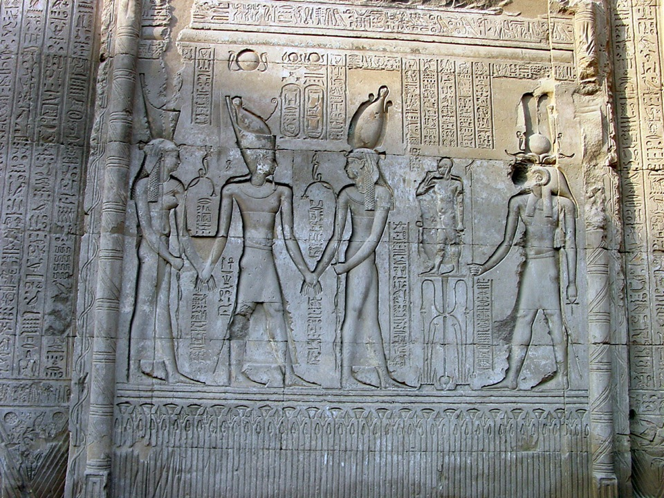 A view of the reliefs from the walls of the Temple of Esna